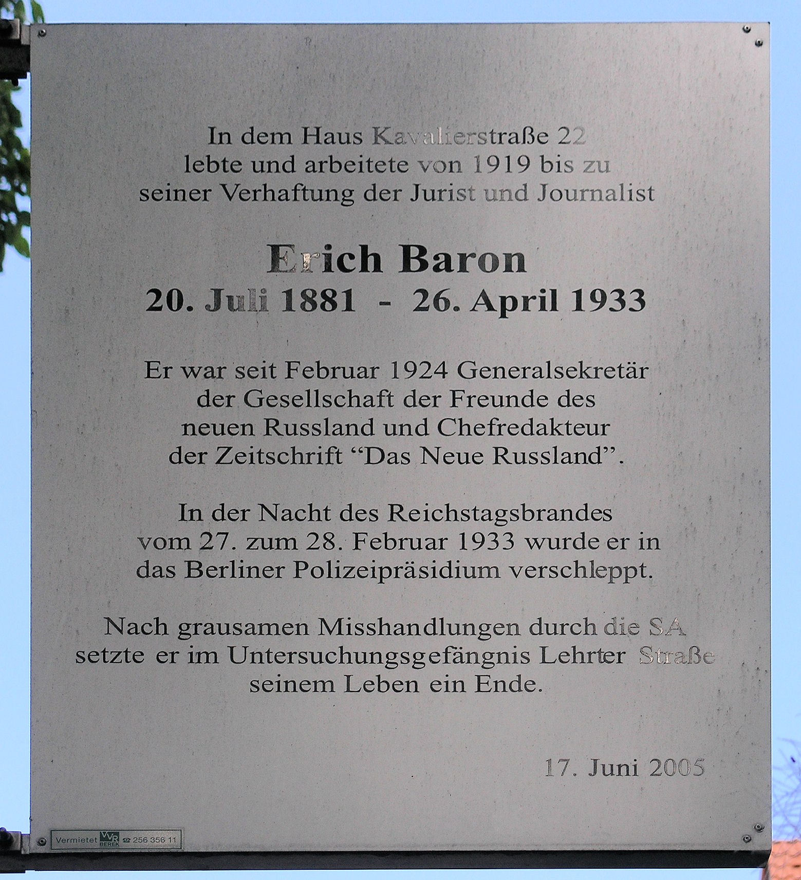 Memorial plaque, Erich Baron, Kavalierstraße 22, Berlin-Pankow, Germany Koordinate:52°34′26″N 13°24′37″E / 52.57389°N 13.41028°E